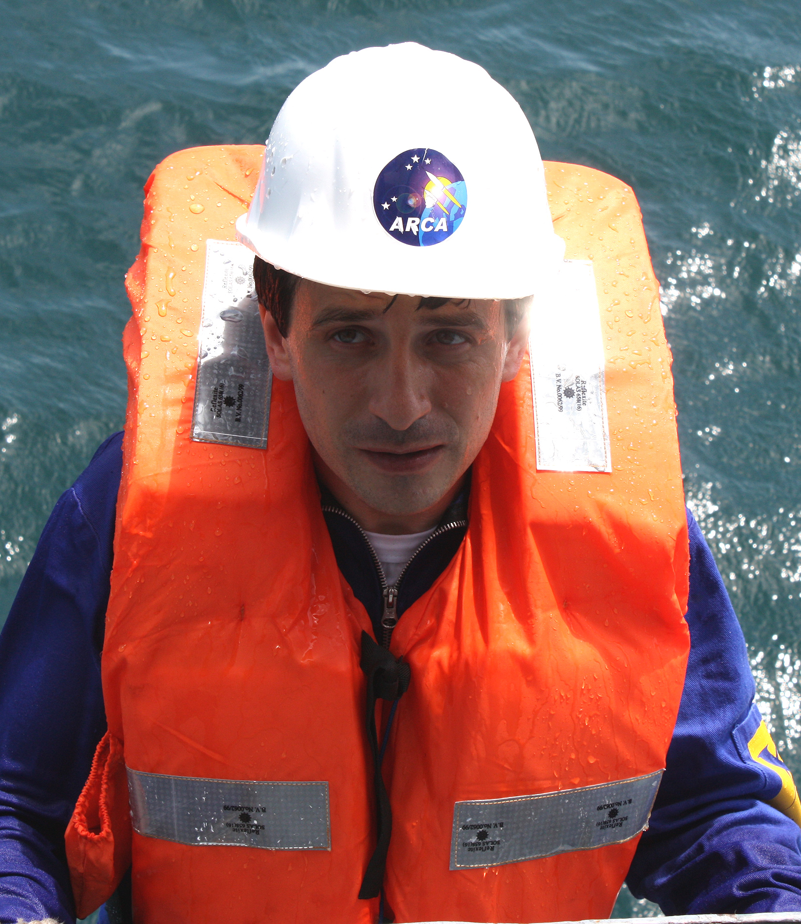 Dumitru Popescu climbing onboard 281 Constanta ship